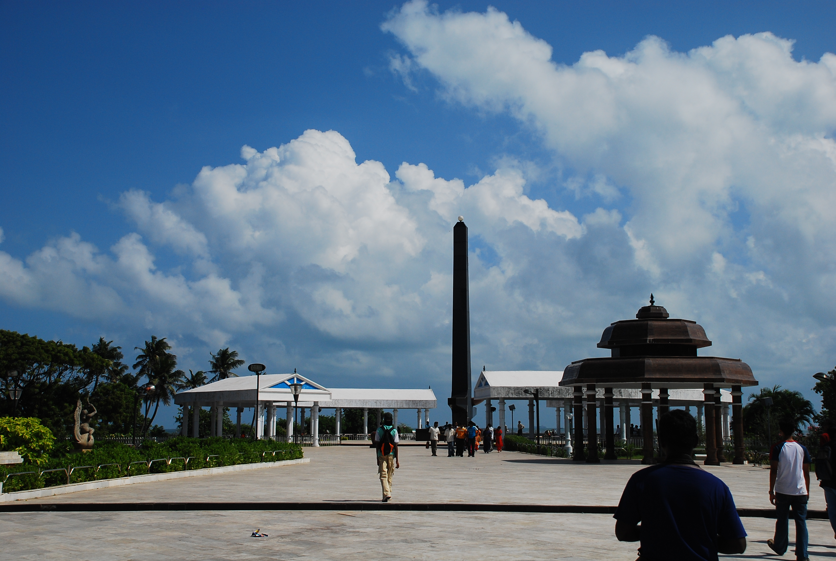 The memorial to the first DMK Chief Minister of Tamilnadu Mr C N Annadurai. Anna is known for his proficiency in Tamizh as well as English. I am reminded of this duel with Karuthiruman, leader of Congress in Assembly. Karuthiruman said in the Assembly "Your days are numbered". Pat came the reply from Anna "My steps are measured"